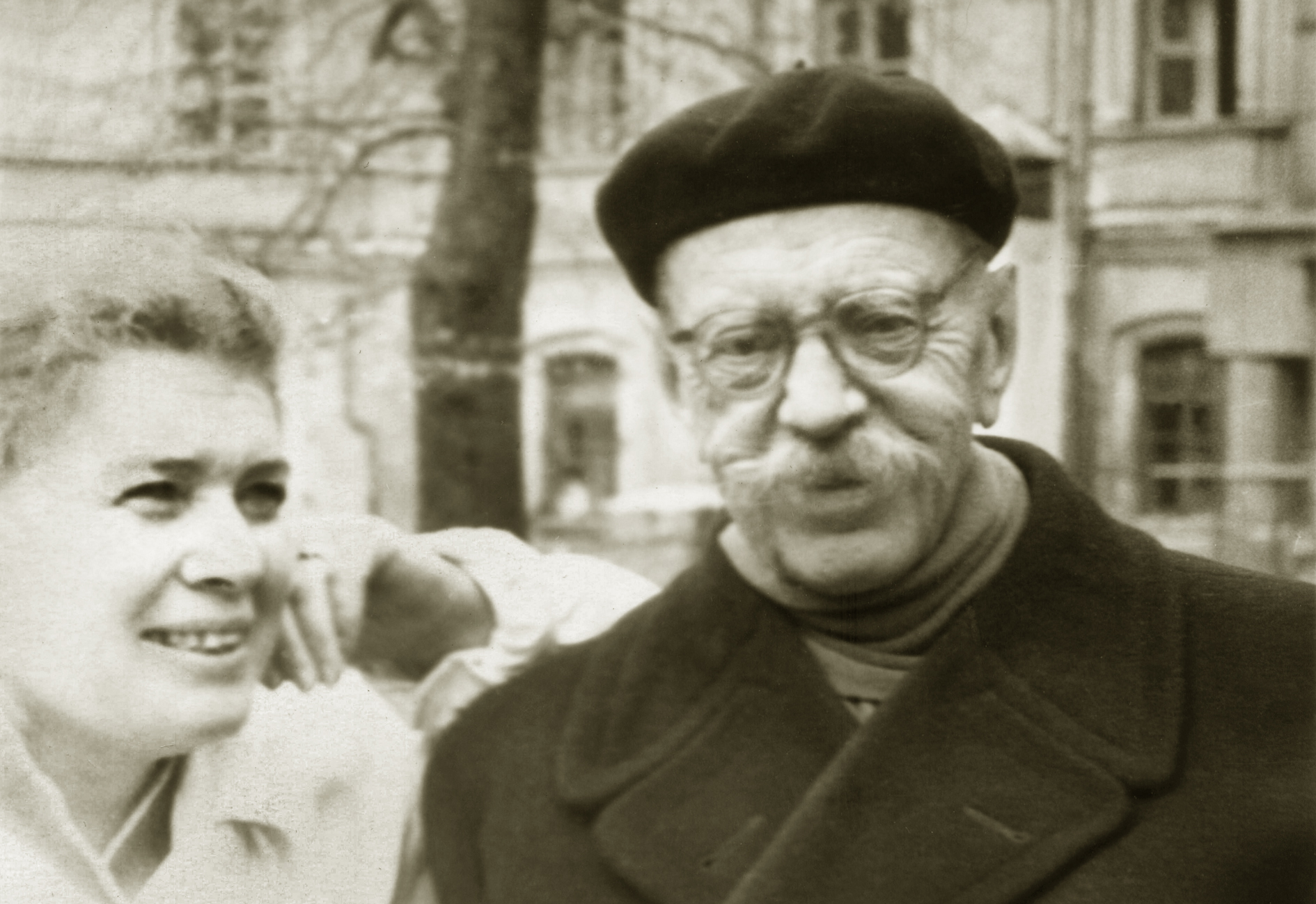 Maslov Mihail Stepanovich. Рrofessor of Pediatrics